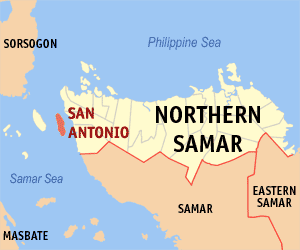 Map of Northern Samar showing the location of San Antonio